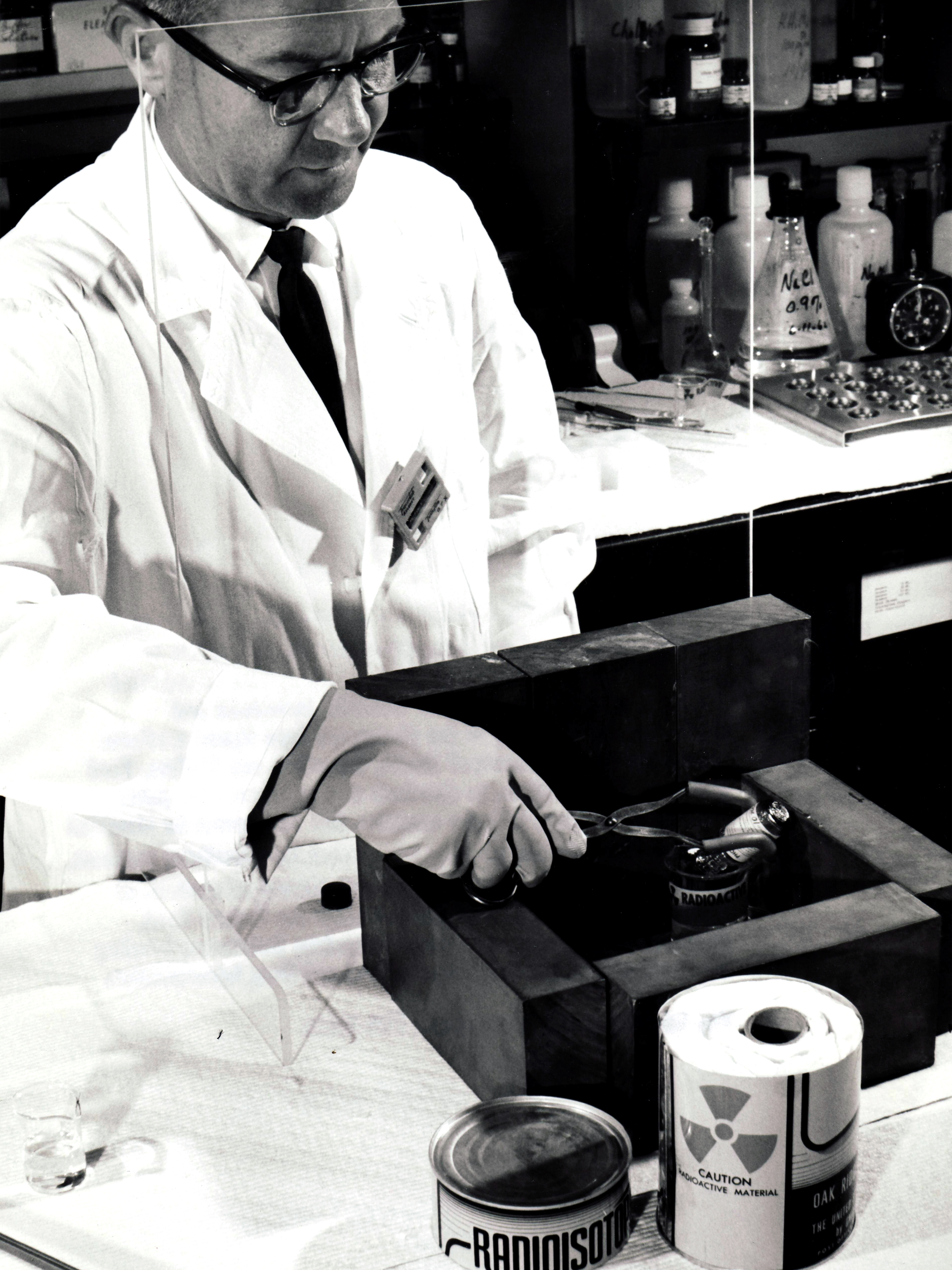 Following WWII, scientists needed a license from what later became the Nuclear Regulatory Commission to work with radioisotopes. This FDA scientist is wearing a dosimeter to check his radiation exposure levels and working in a lead barrier. Following the detonation of the first atomic bomb, pre-war steel became a valuable commodity for scientists since it was the only steel not contaminated by radiation. For more information about FDA history visit